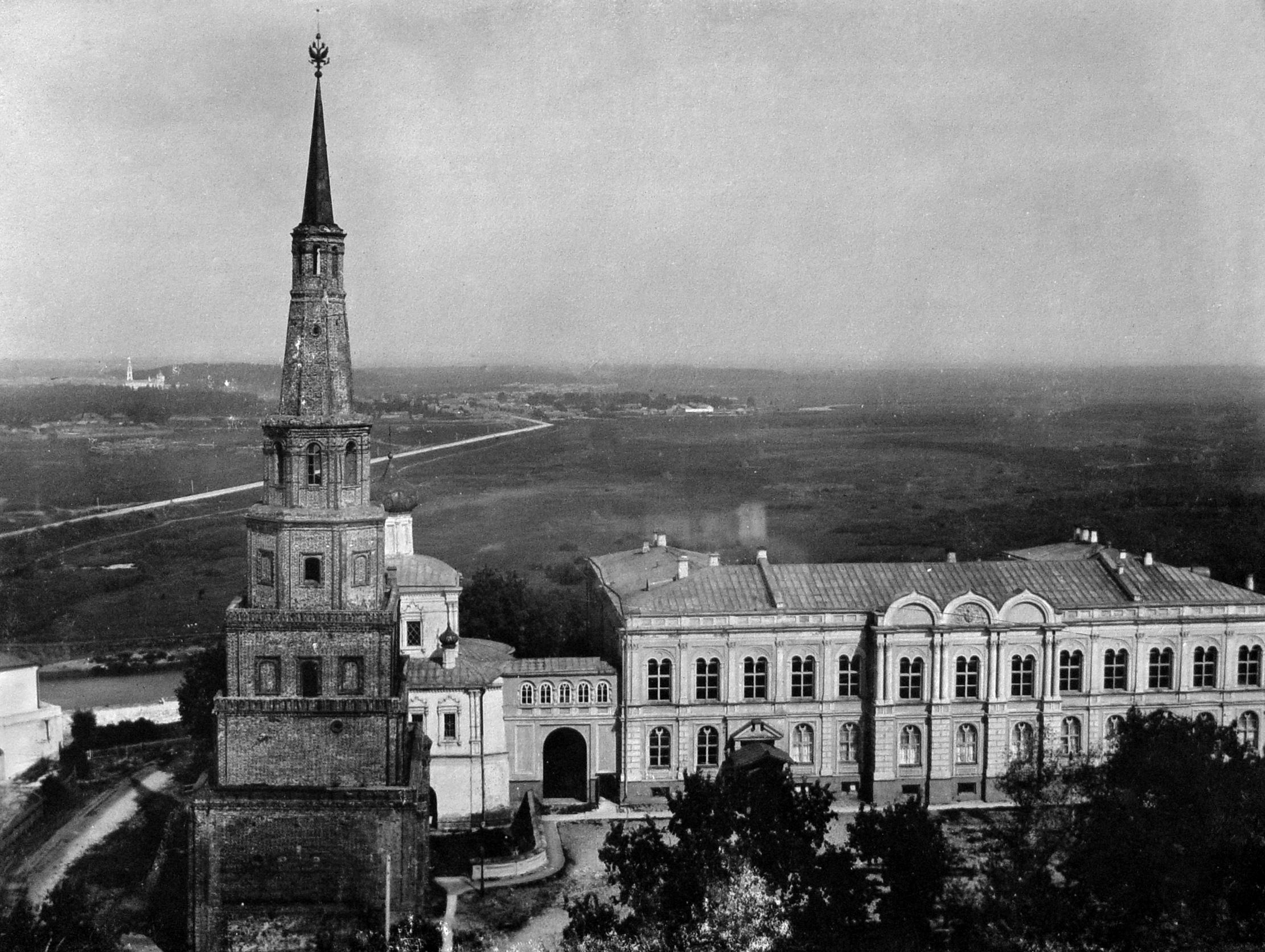 Sumbeki Tower in Kazan Kremlin during Russian Empire.